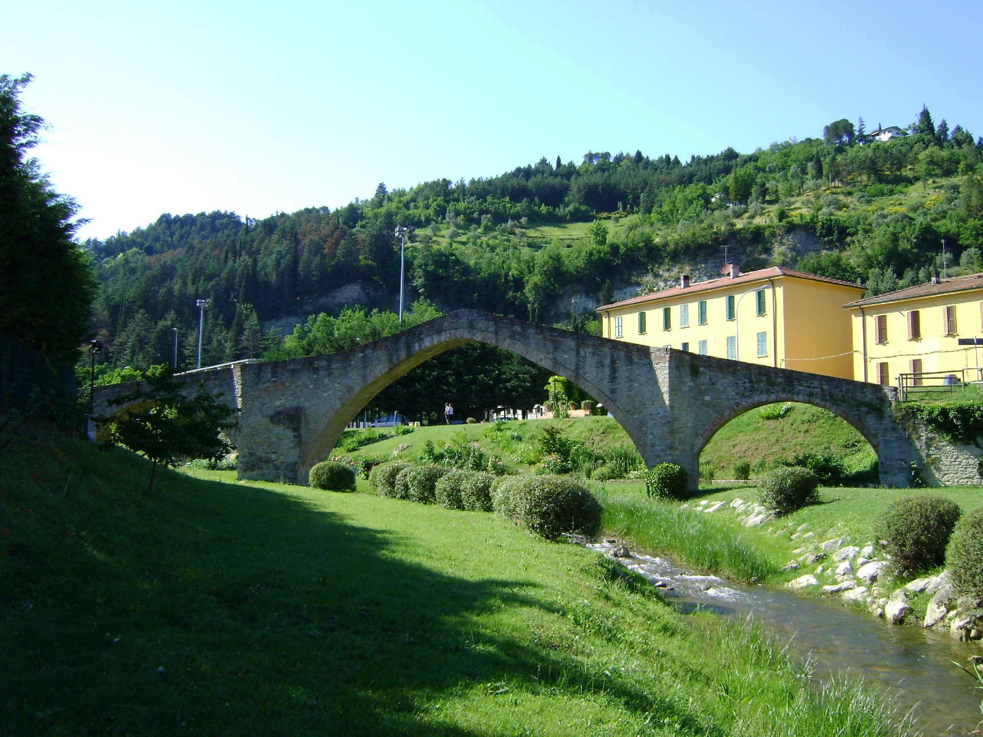 The Bridge of San Donato or della Signora, Modigliana, province of Forlì-Cesena